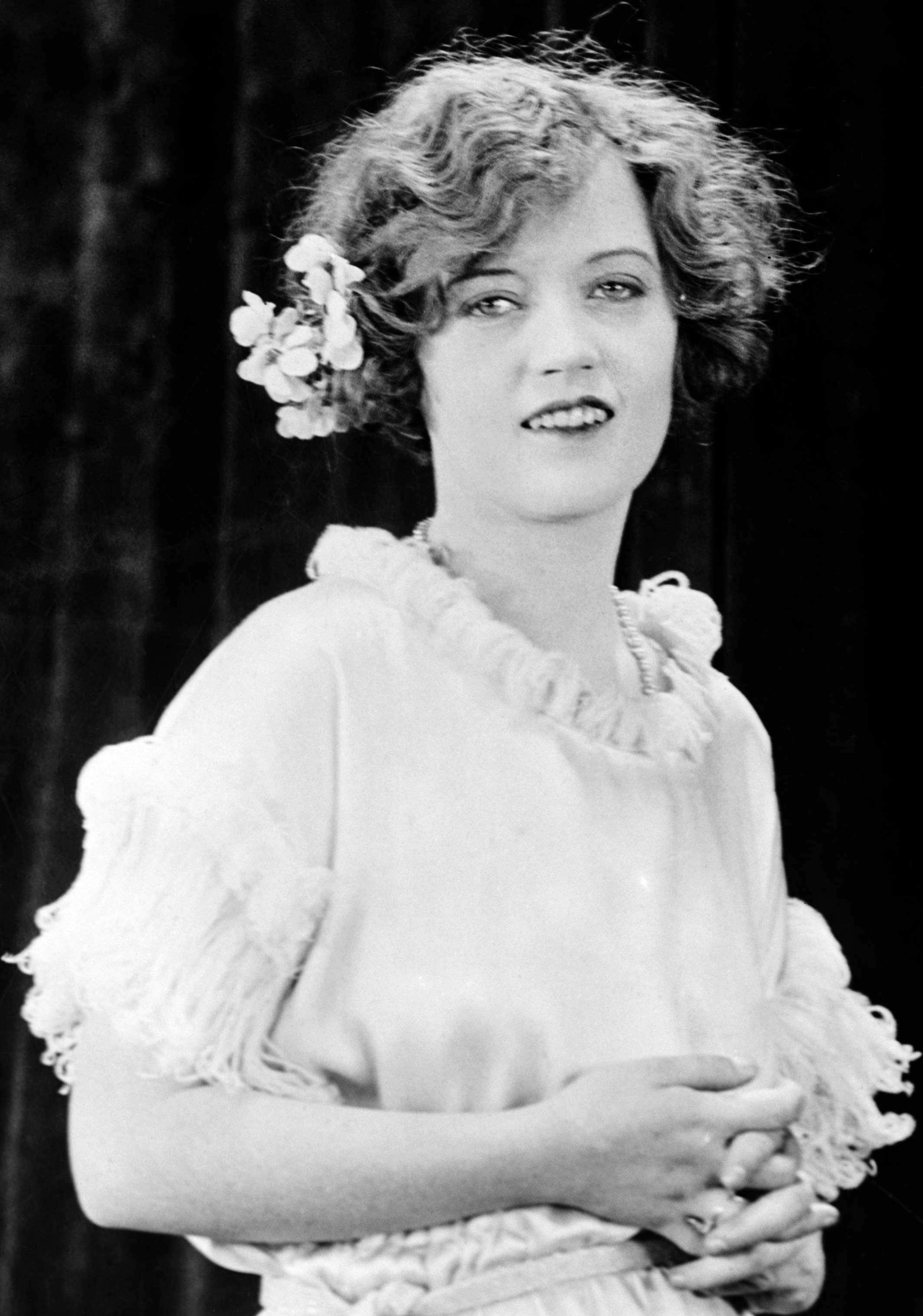 Hollywood actress Marion Davies